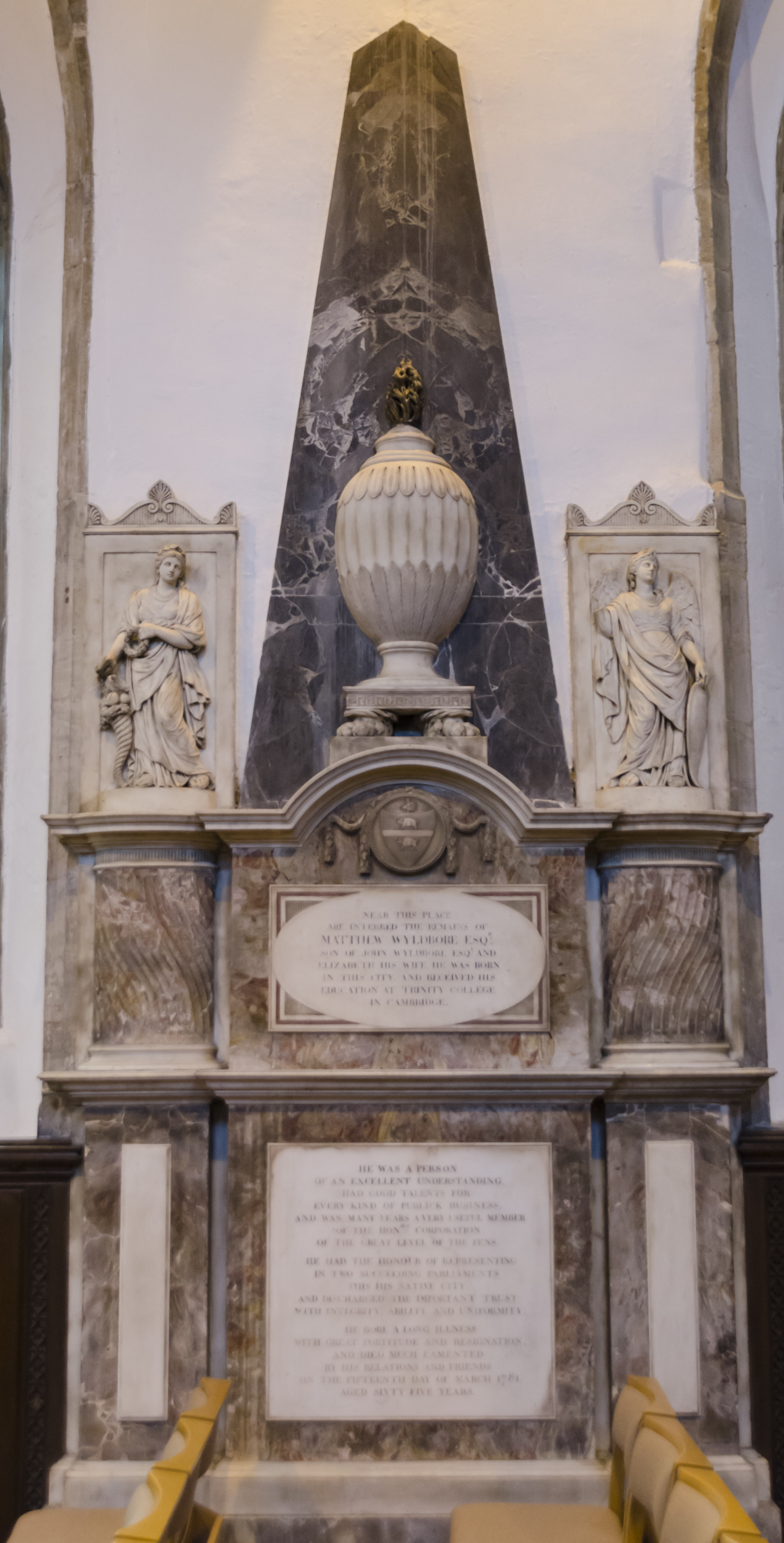 Matthew Wyldebore lived at the mansion house in Westgate (now part of the Bull Hotel) and was twice elected MP for Peterborough between 1768 - 74. He died on the 15th March 1781. He bequeathed a legacy to the church to pay for a peal of bells and a sermon on the anniversary of his death. This is reputedly in gratitude for finding his way to safety through the mists on Peterborough Common by making for the sound of St John's bells. The payments were ten shillings per rope and one pound for the sermon. (From church website)